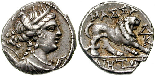 Massalia, 200-150 BC. Silver Tetrobol (16mm, 2.62 g). Diademed and draped bust of Artemis right, wearing earring and pearled necklace; quiver over shoulder / MAΣΣA-ΛIΗTΩ[N], lion advancing right; ΔK monogram before.